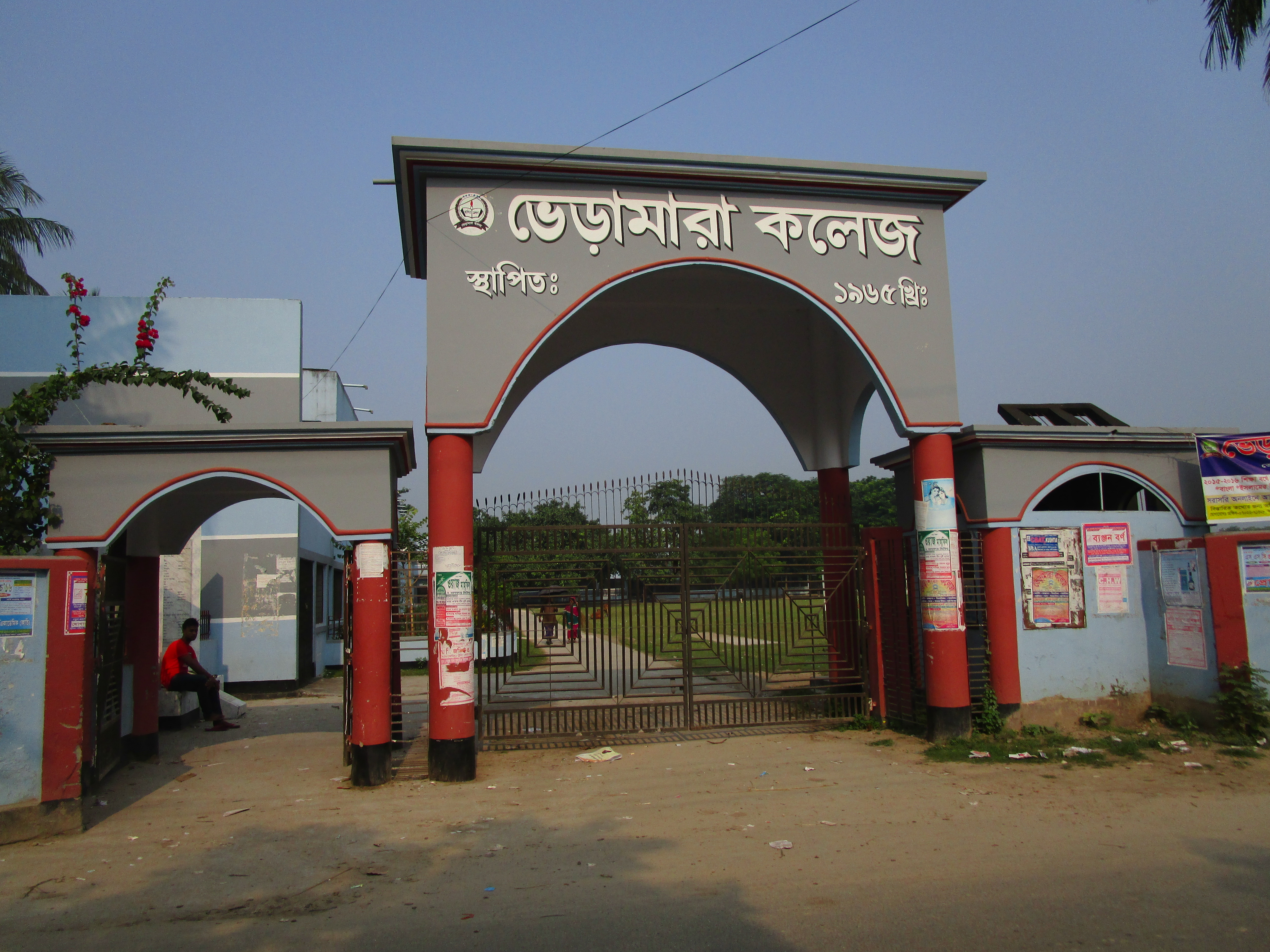 Main Gate of Veramara College.